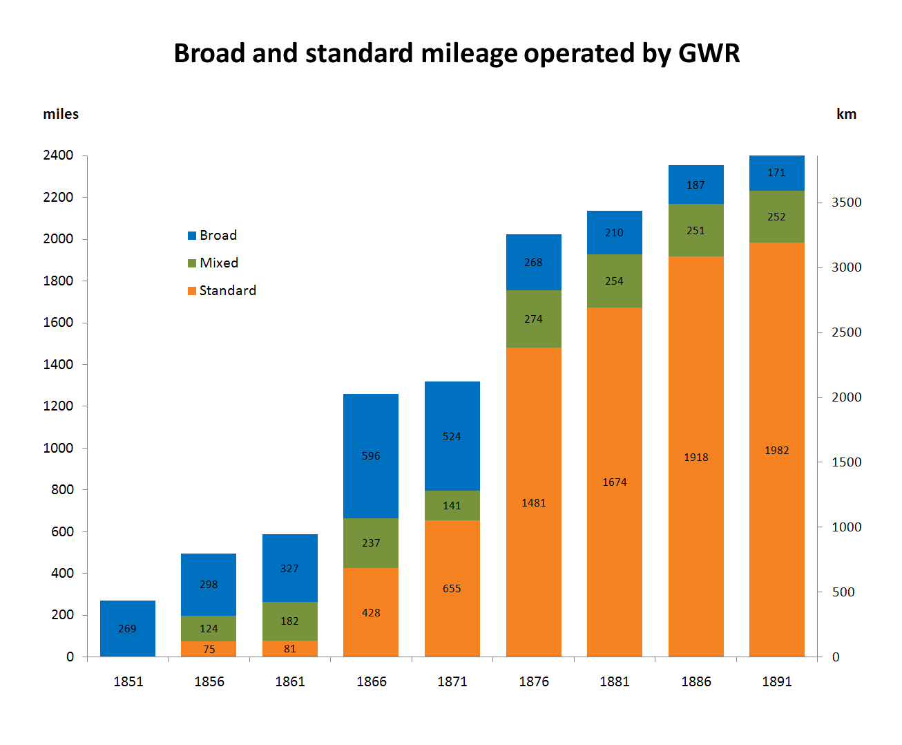 diagram of broad, standard and mixed mileage operated by Great Western Railways in the years 1851 to 1891